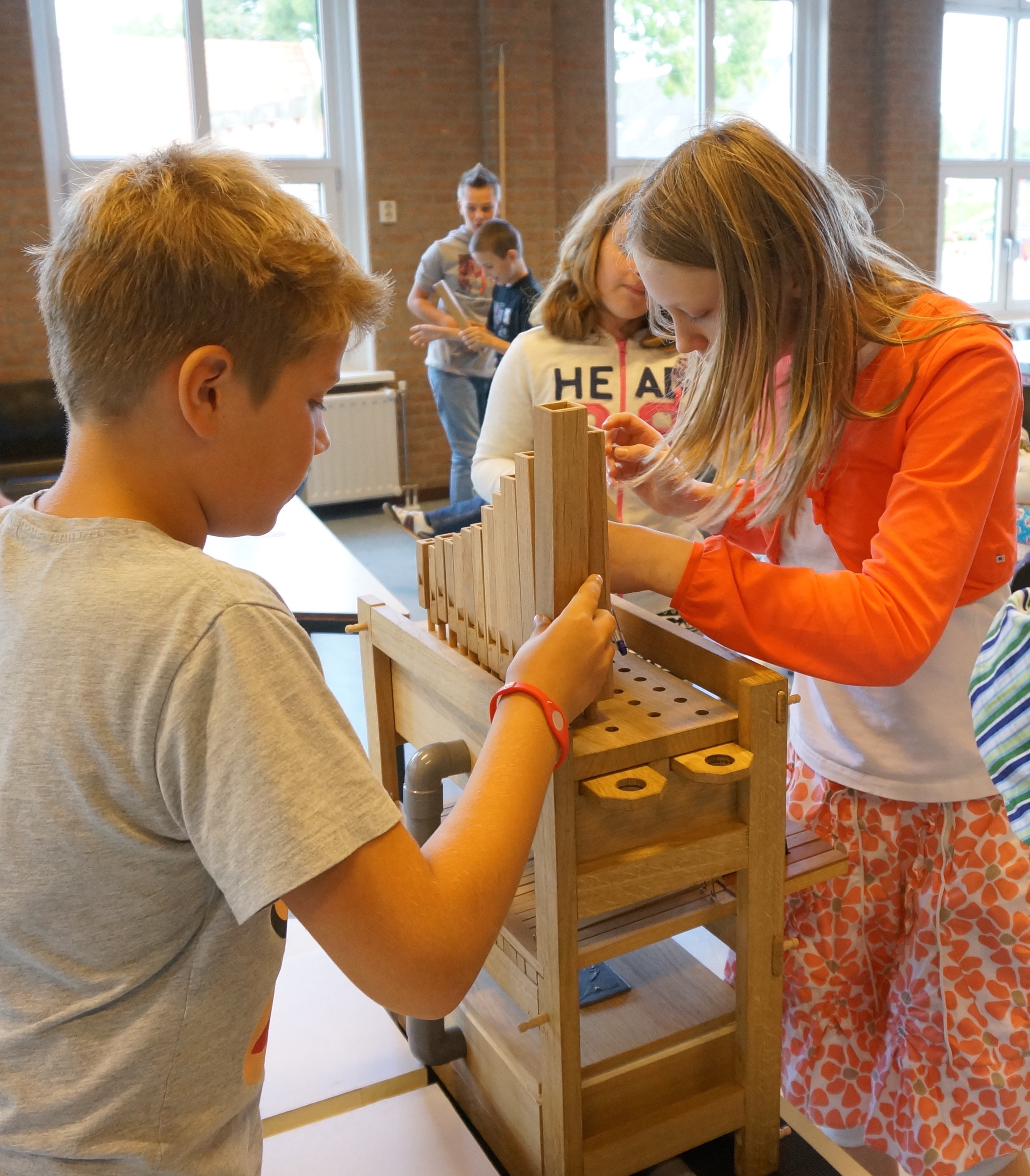 Children at primary school in the Netherlands are working on a do-organ of Orgelkids.